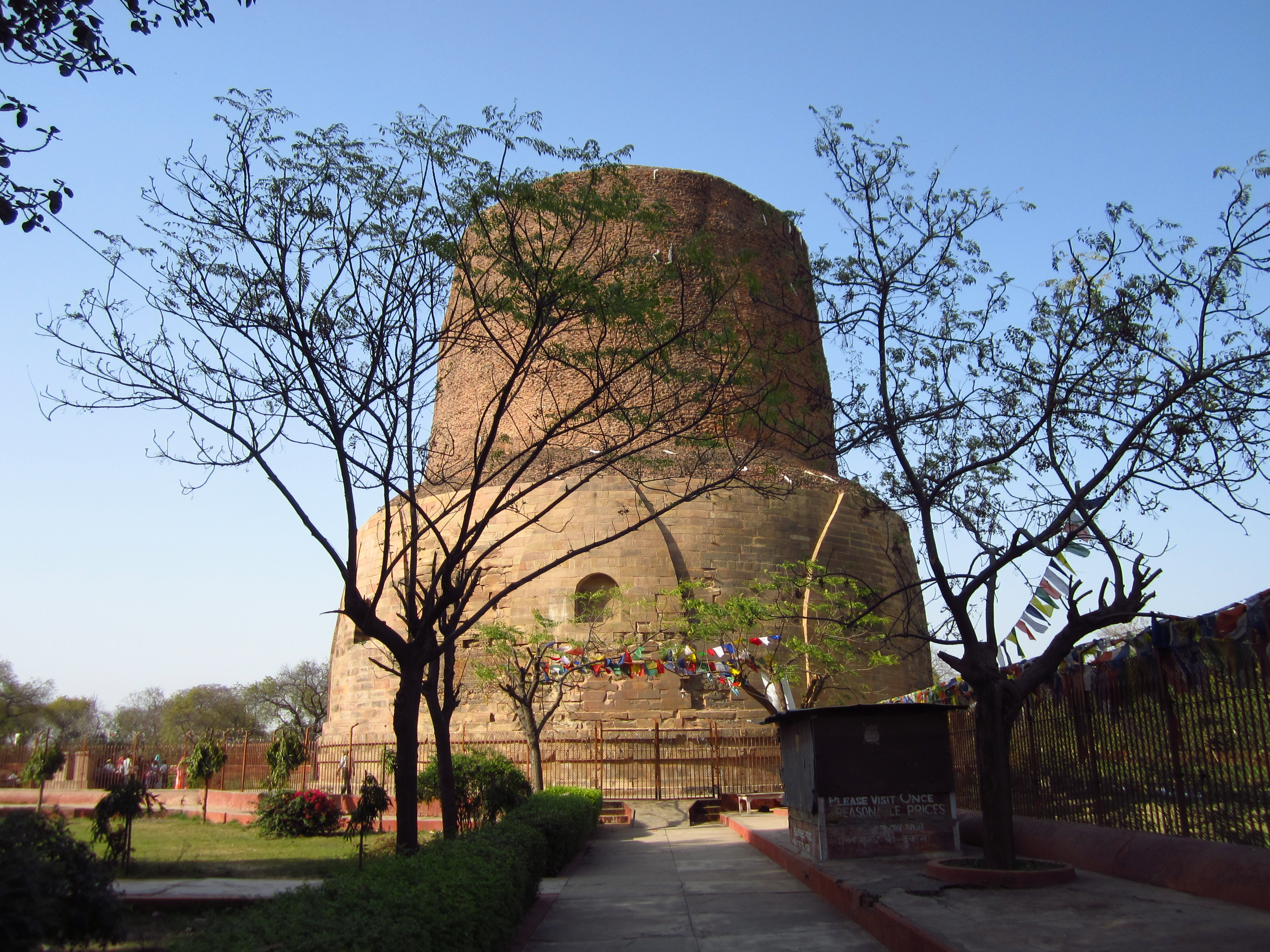 Dhamek stupa at the ancient buddhist site of Sarnath.